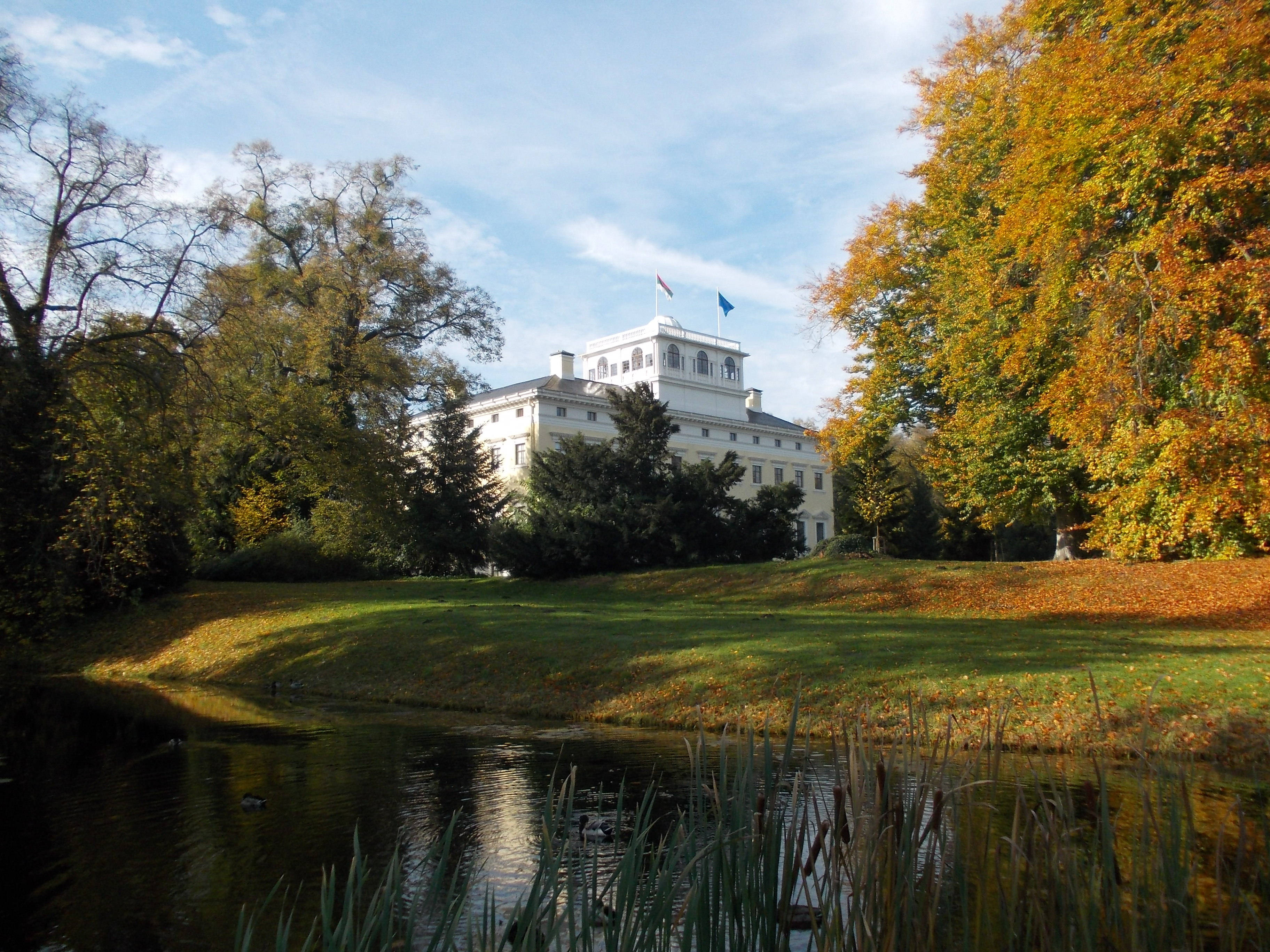 Wörlitz Castle